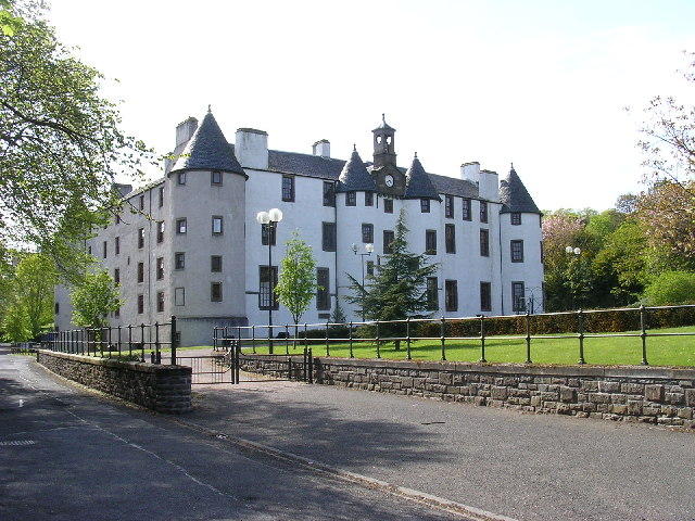 Dudhope castle. Dudhope was the home of the Scrimegour family, hereditary standard bearers to the Kings of Scots. It is a 17th-century courtyard castle, extended from a 16th-century keep, which has now been demolished. The property was sold by the family in 1668, to John Graham of Claverhouse, also known as Bonnie Dundee or Bloody Cavers - depending on whose side you were on. He led the Jacobites to victory at Killiecrankie in 1689, though died in the process. The castle was later converted to use as a woollen mill, then a barracks. It was restored in 1989, and is now a part of the University of Abertay.